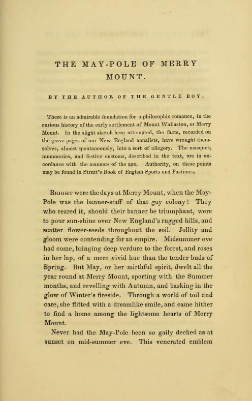 Page from The Token and Atlantic Souvenir, an annual gift-book, edited by Samuel Griswold Goodrich. Published by Charles Bowen, 1836. Features the opening page of "The May-Pole of Merry Mount", a short story by Nathaniel Hawthorne.